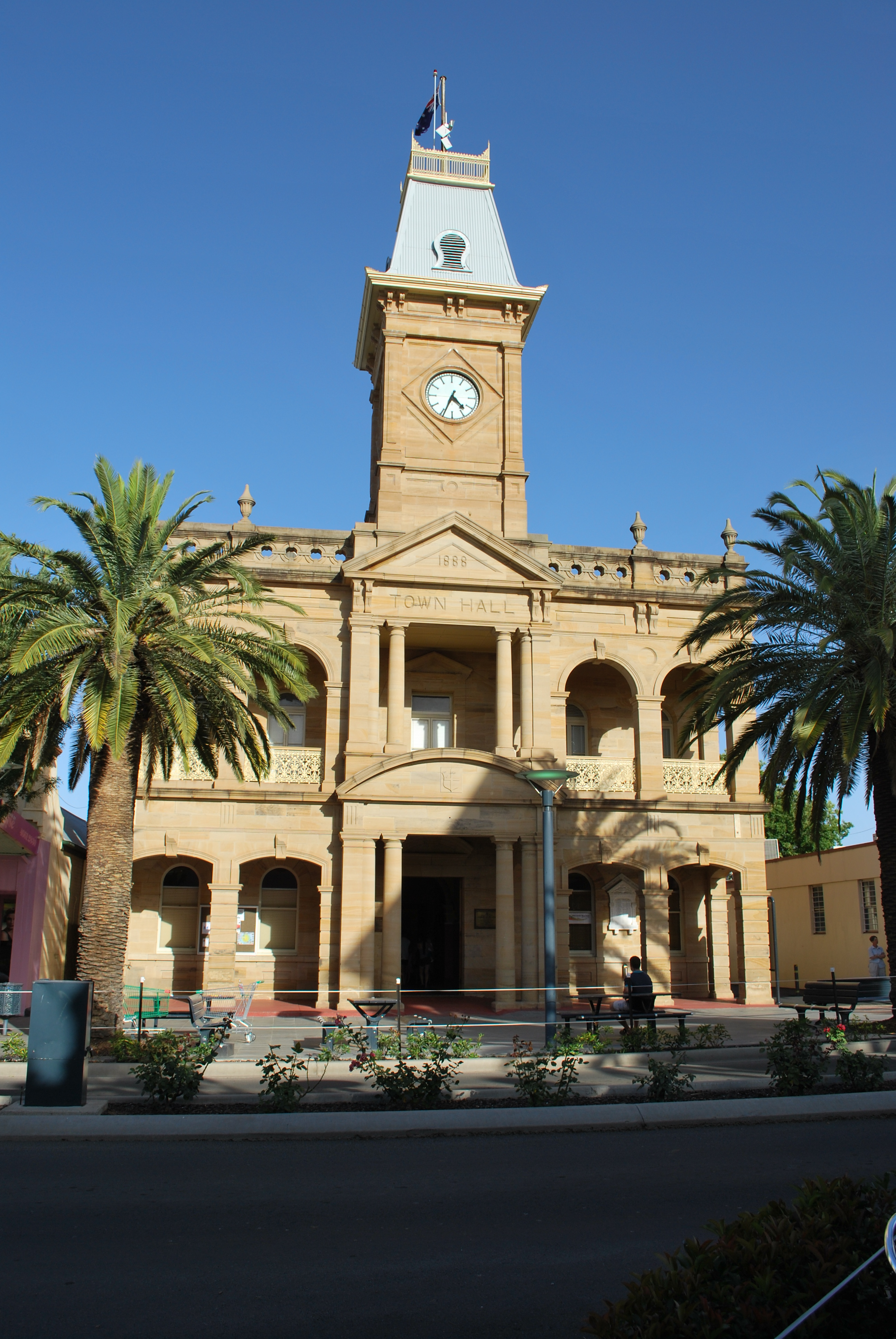 Town hall in Warwick, Queensland